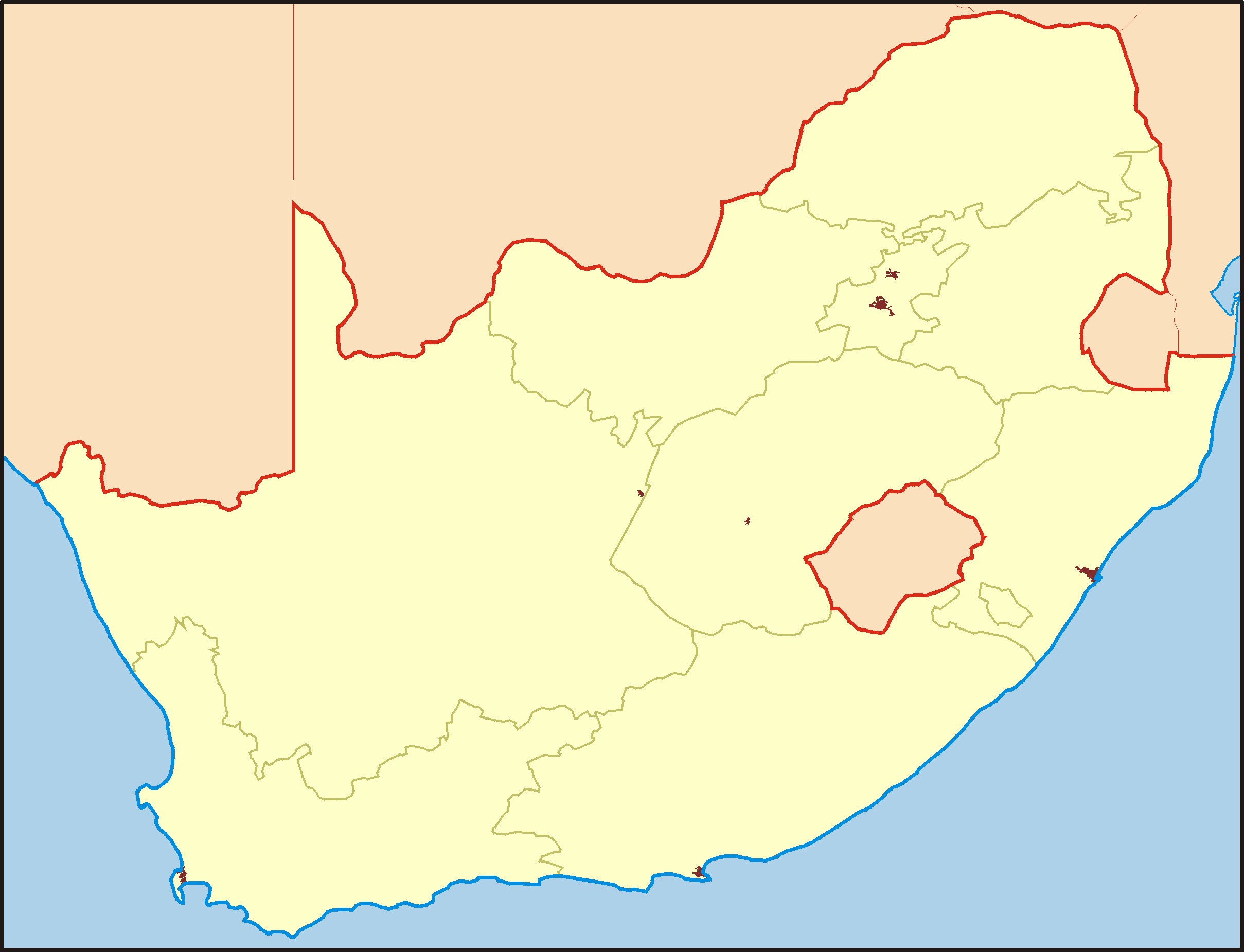 for Template:Location map